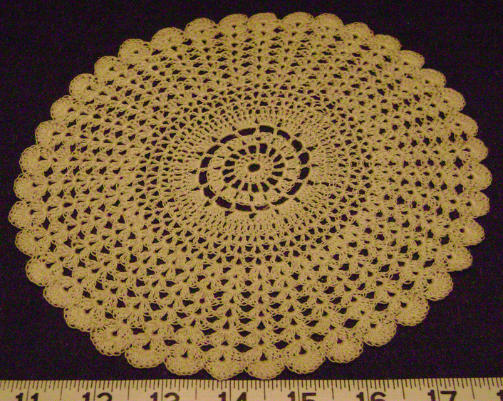 Crochet doily done (mainly) in fine fan stitch.